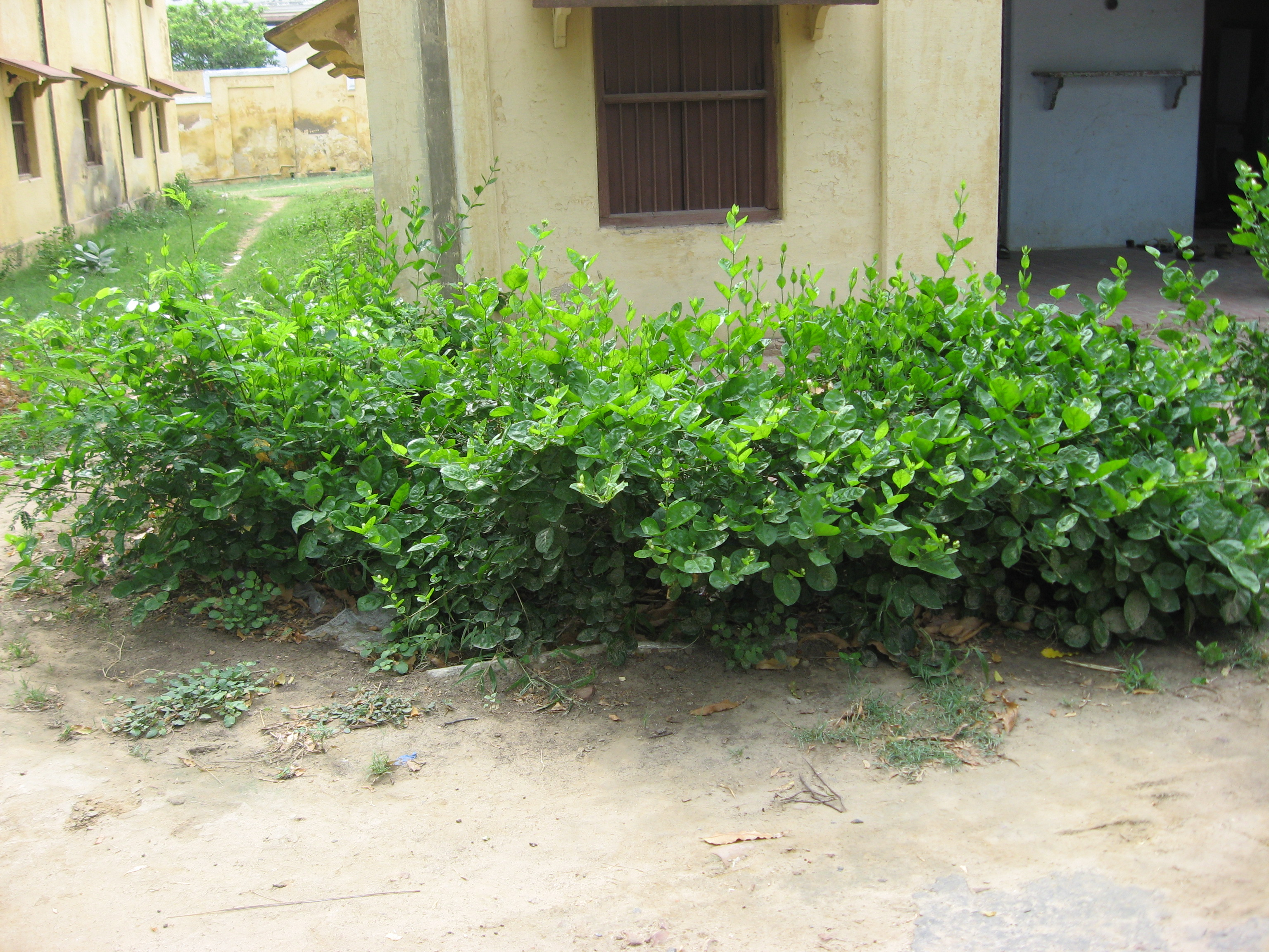 Small Shrubs planted by the House. It is considered to be a part of their main and important activity, the environmental protection movement.